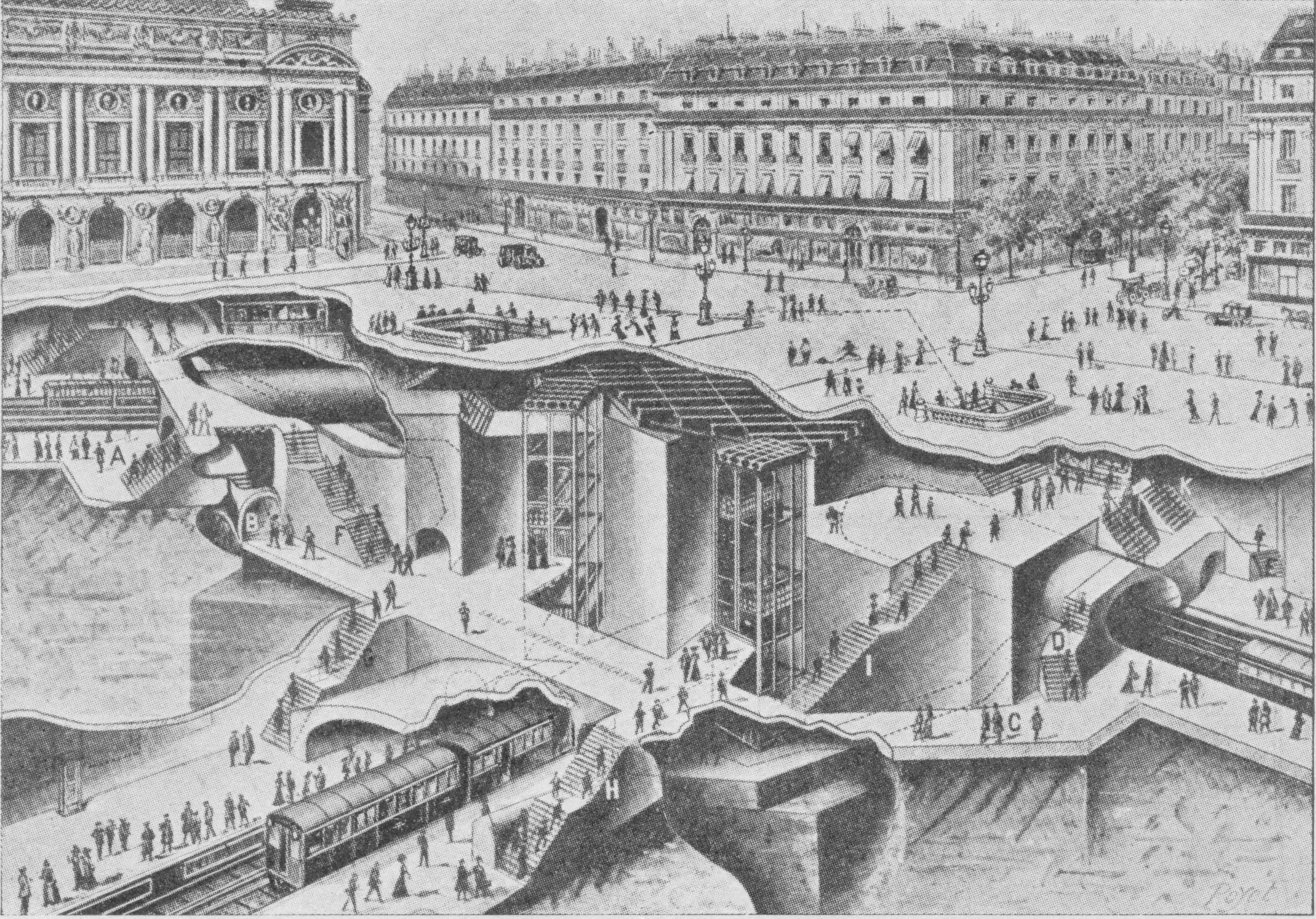 The Opéra Paris Metro crossing